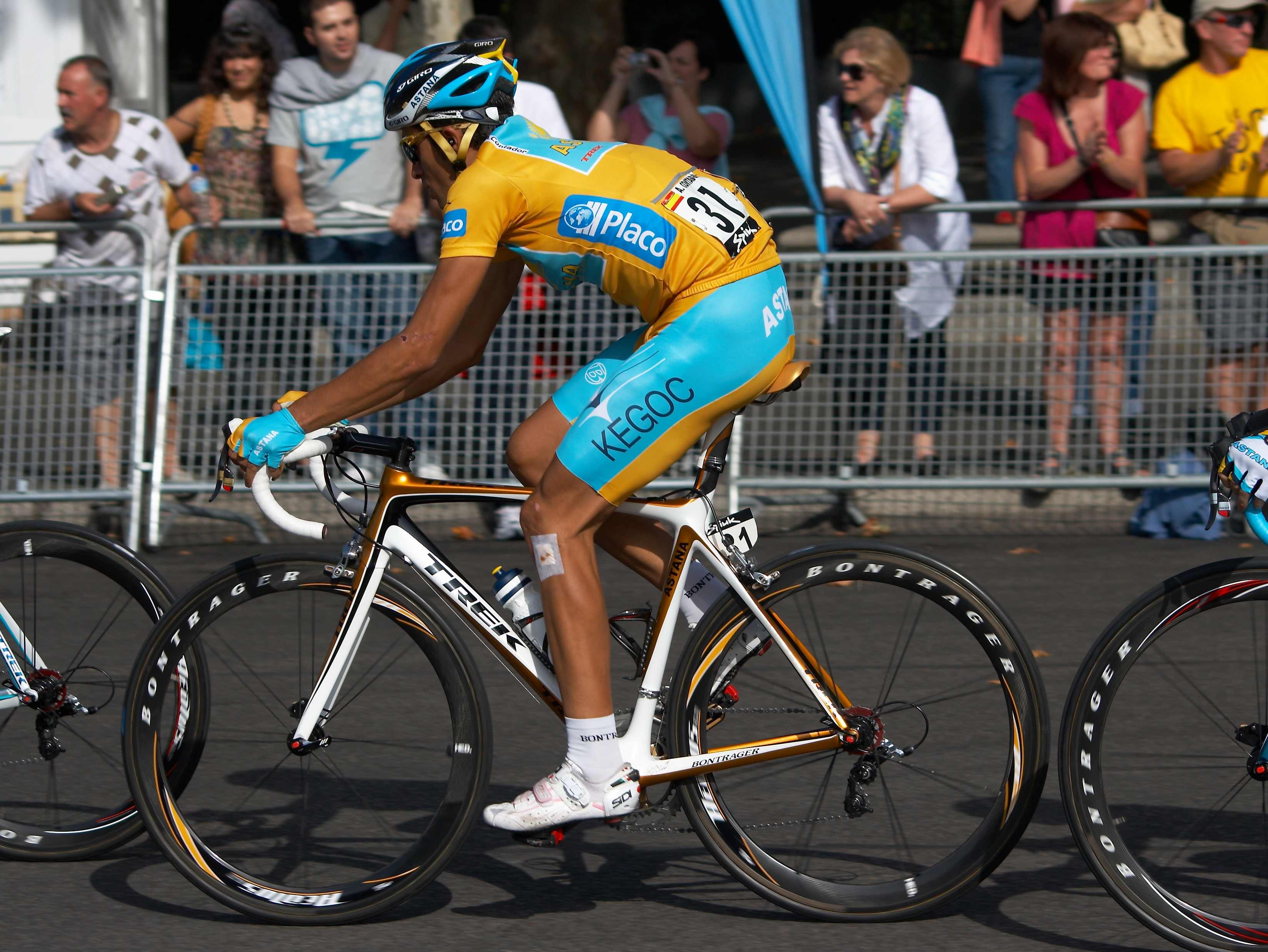 Alberto Contador (31/ESP), 2008 Vuelta a España, Madrid, Spain.